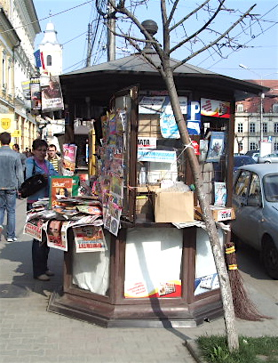 A newspaper kiosk in the central area.